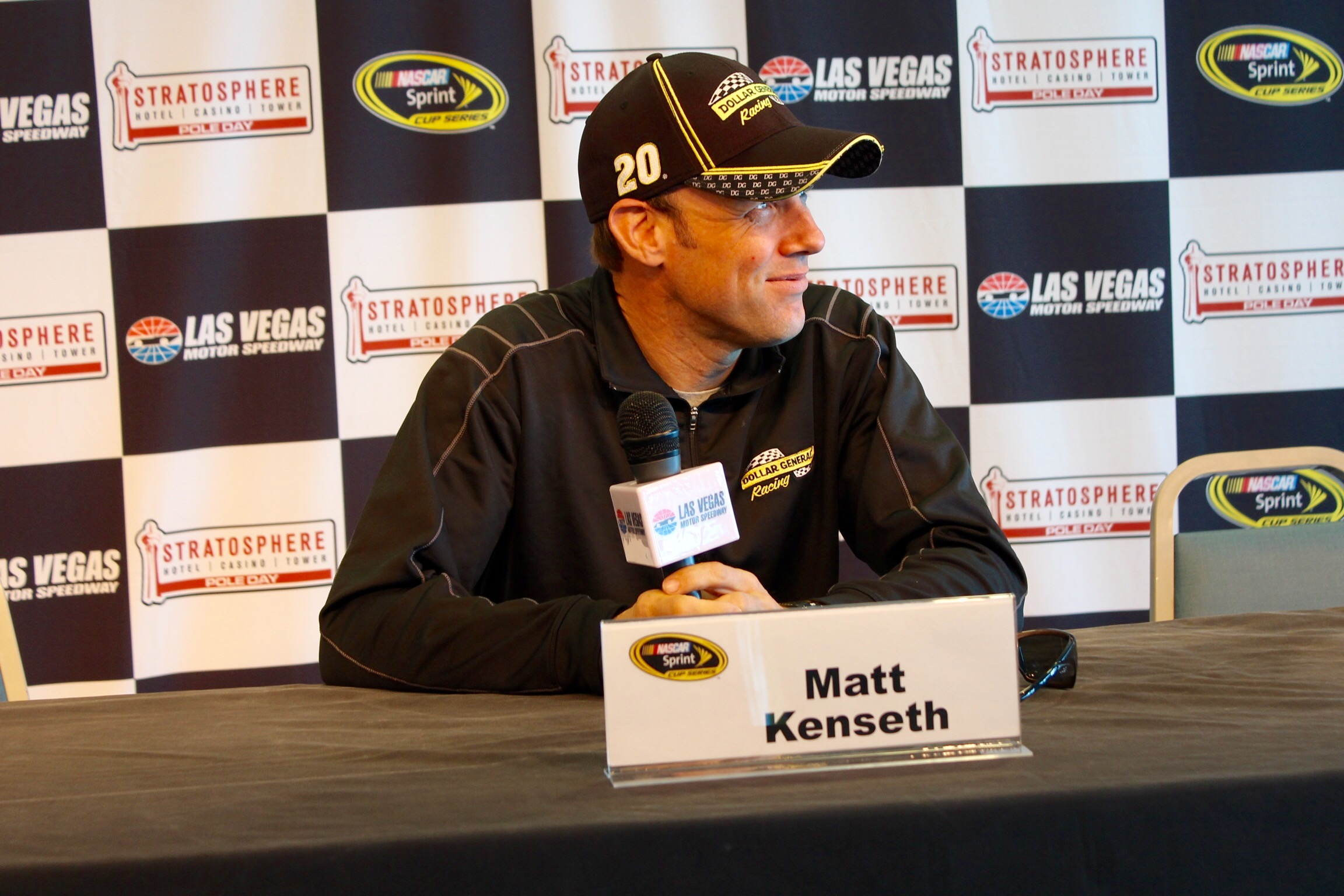 Matt Kenseth at Las Vegas Motor Speedway Photo Credit: Rob Street